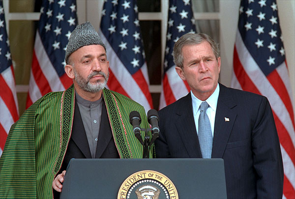 "Chairman Karzai, I reaffirm to you today that the United States will continue to be a friend to the Afghan people in all the challenges that lie ahead," said the President in his remarks during their joint press conference. White House photo by Paul Morse.